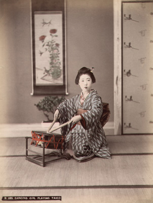 handcolored albumenprint